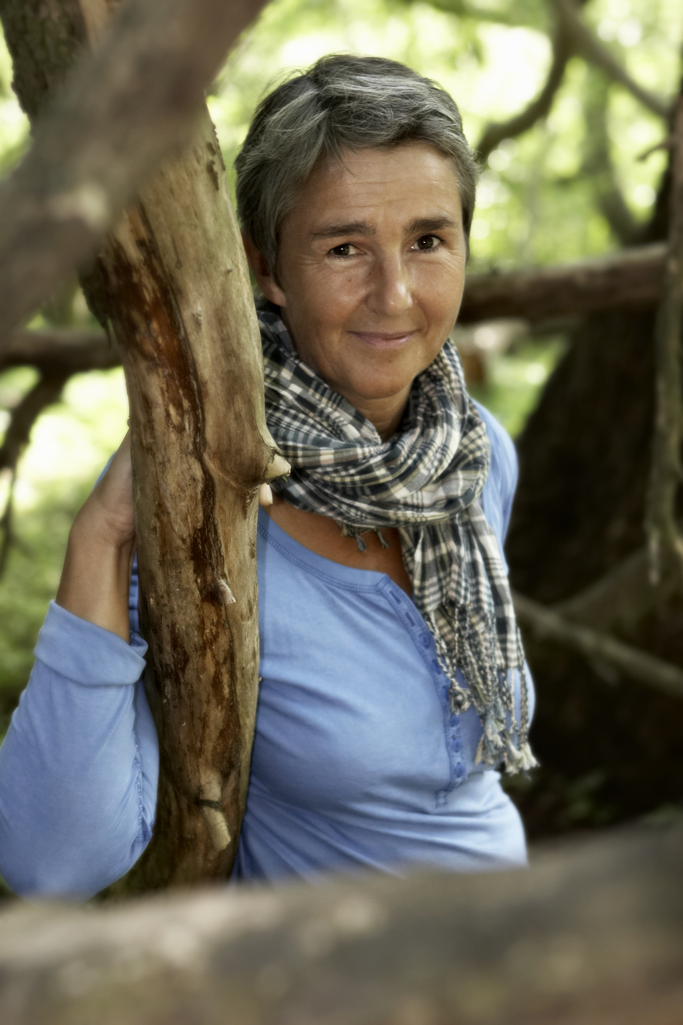 Lin Hallberg, Swedish author